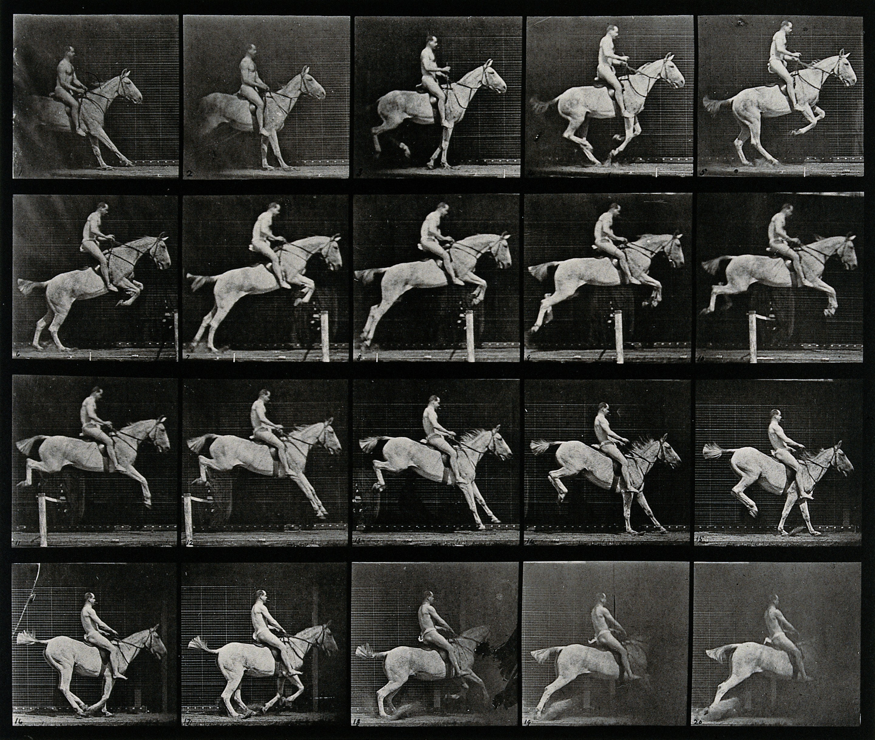 A horse jumping a hurdle. Photogravure after Eadweard Muybridge, 1887. Iconographic Collections Keywords: University of Pennsylvania.; Eadweard Muybridge